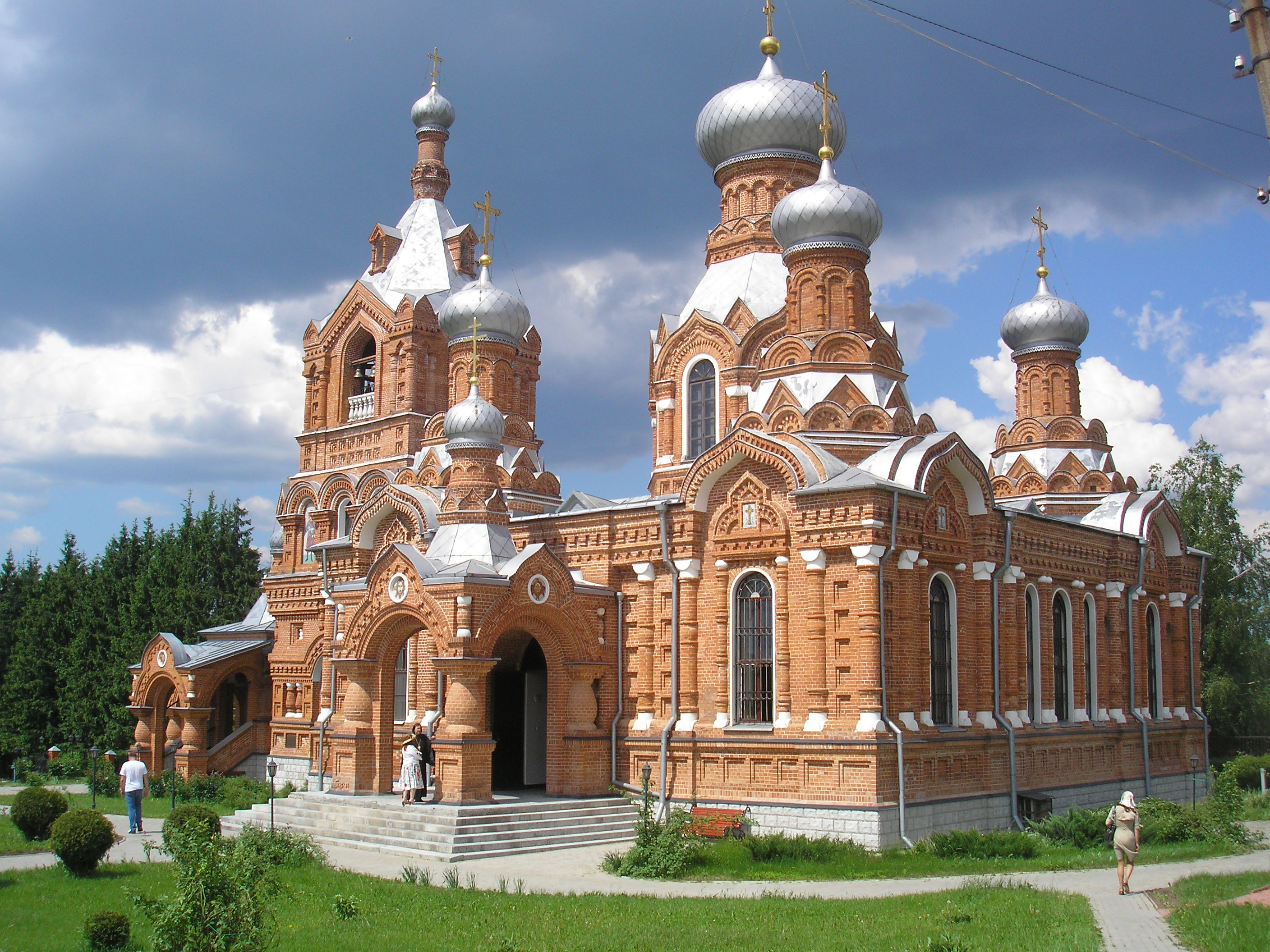 The church in the village of Darna, Istra district, Moscow region.